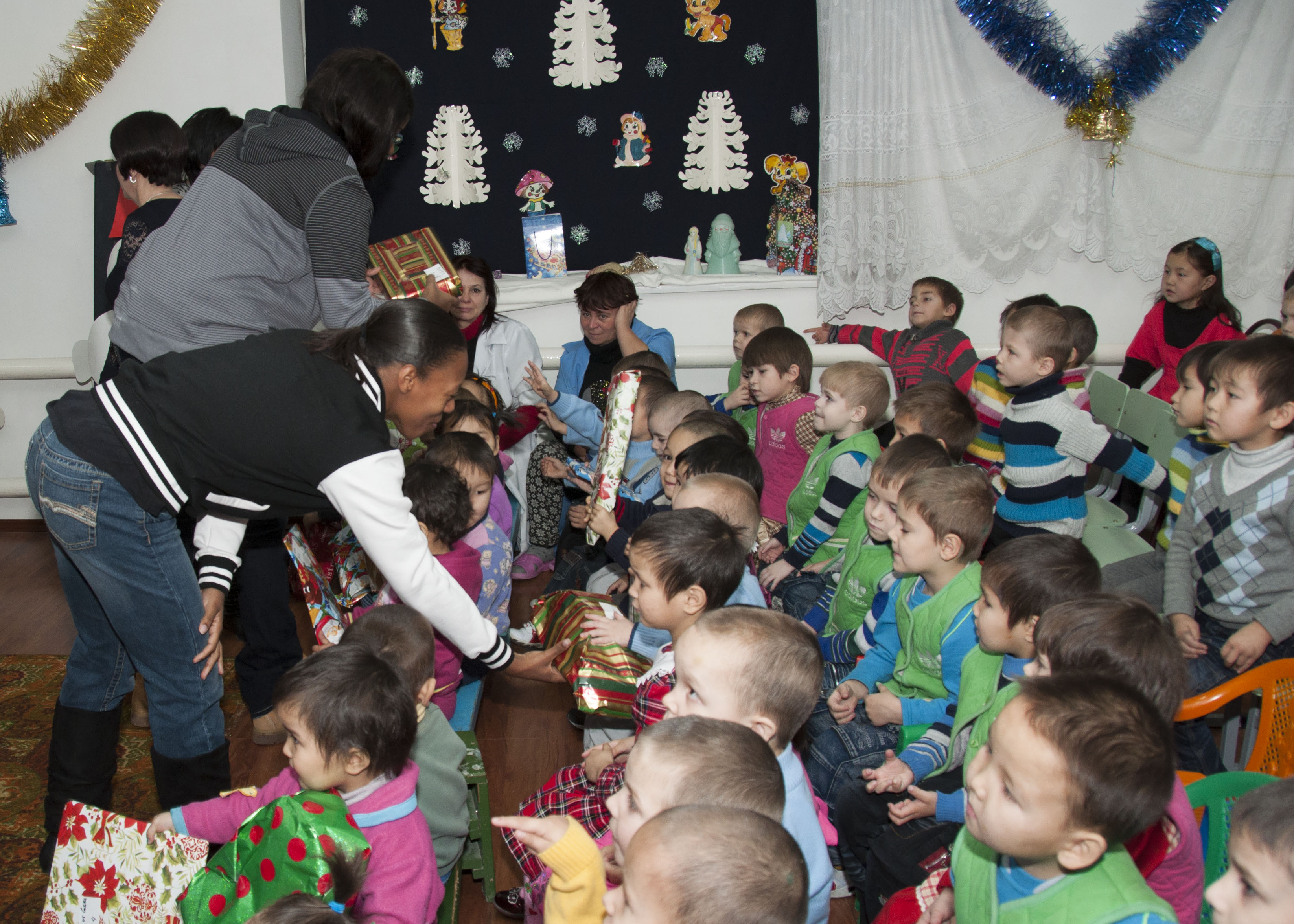 Service member volunteers from the Transit Center at Manas hand out presents to children at the Belovodski Preschool Orphanage in Karabalta, Kyrgyzstan, Dec. 27, 2012. The orphanage houses more than 70 children between the ages of 3 and 7.